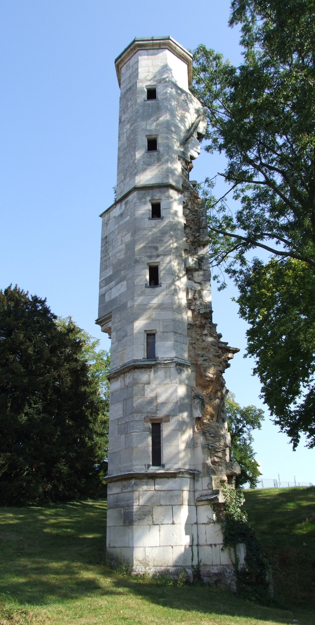 Dijon, Burgundy, FRANCE